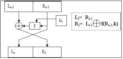 scheme Feictel